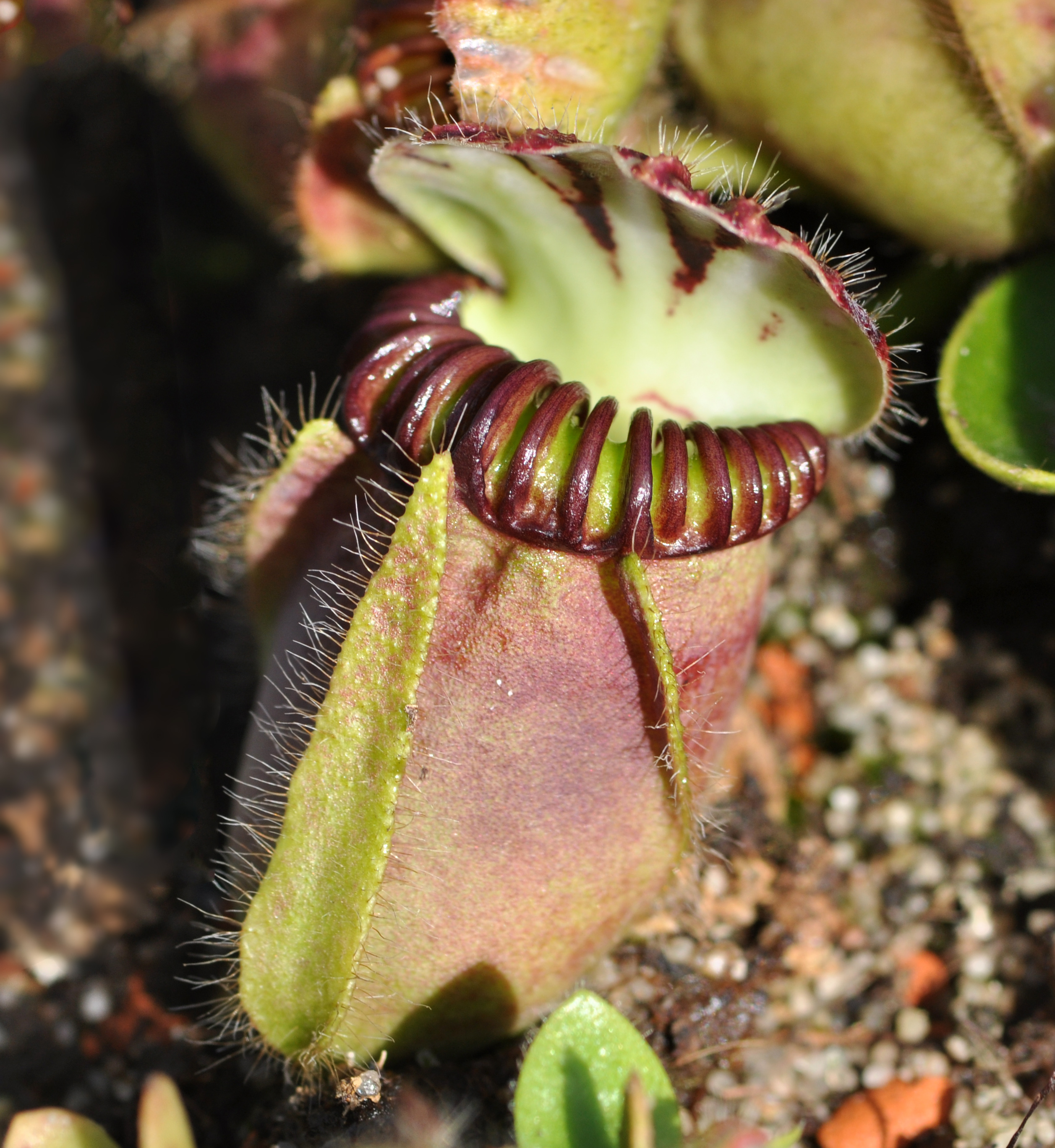 Cephalotus follicularis